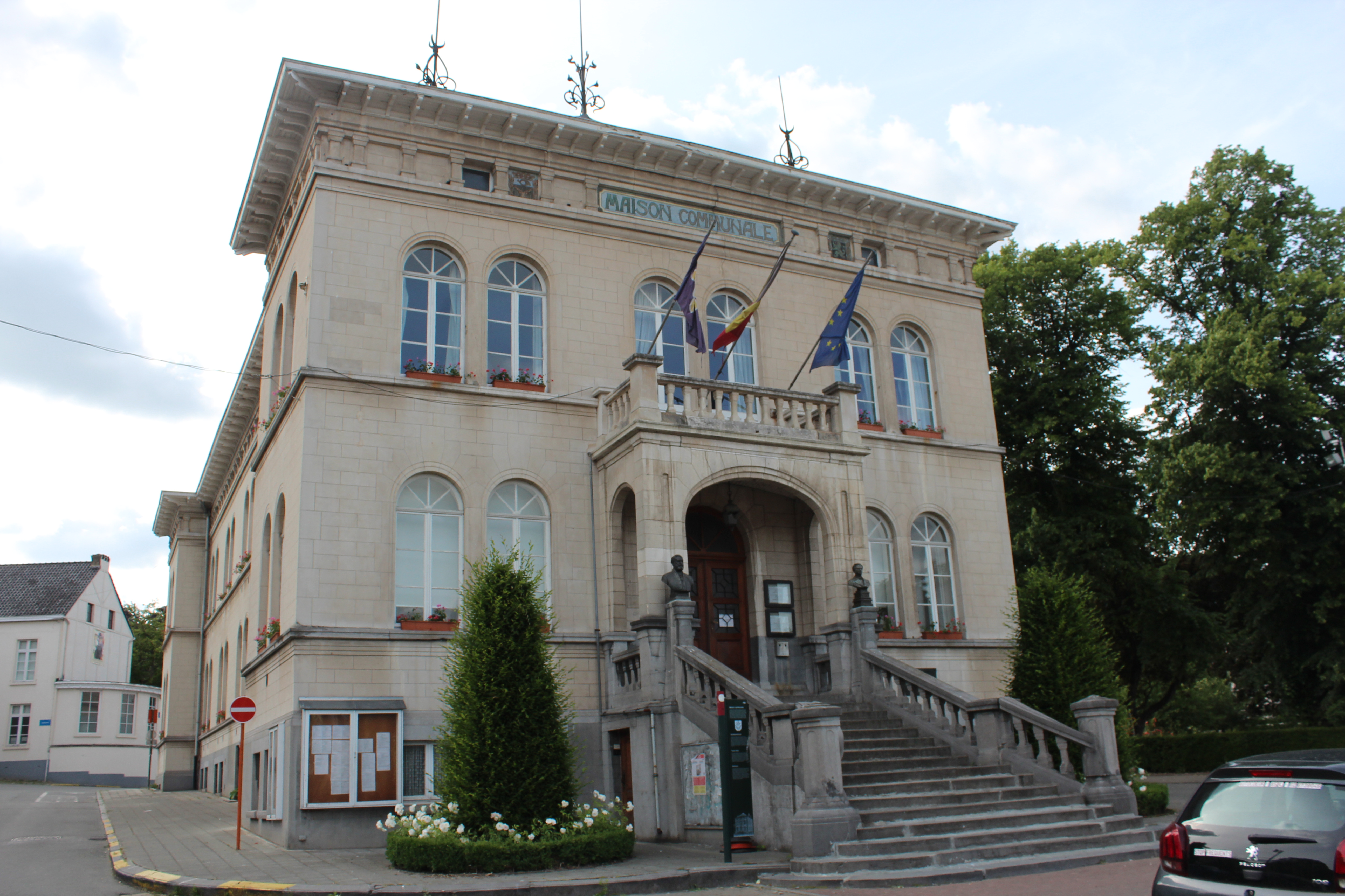 Maison communale de Watermael-Boitsfort Gemeentehuis van Watermaal-Bosvoorde